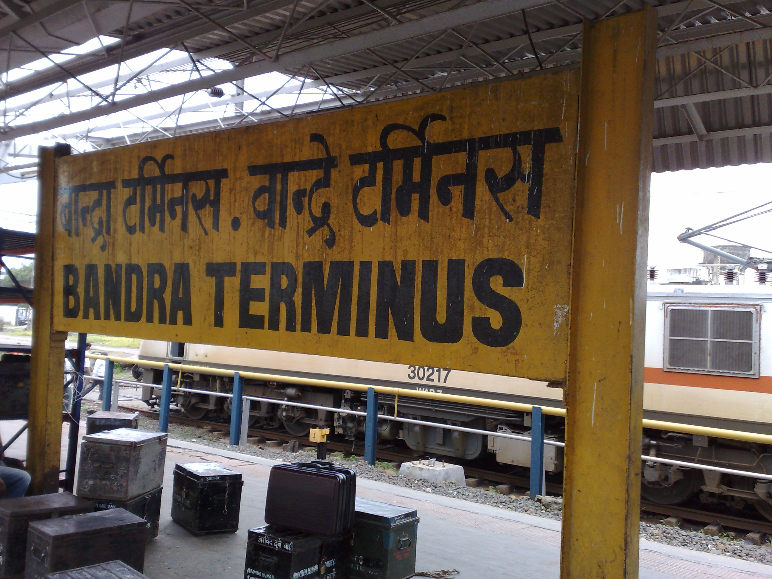 Bandra Terminus stationboard